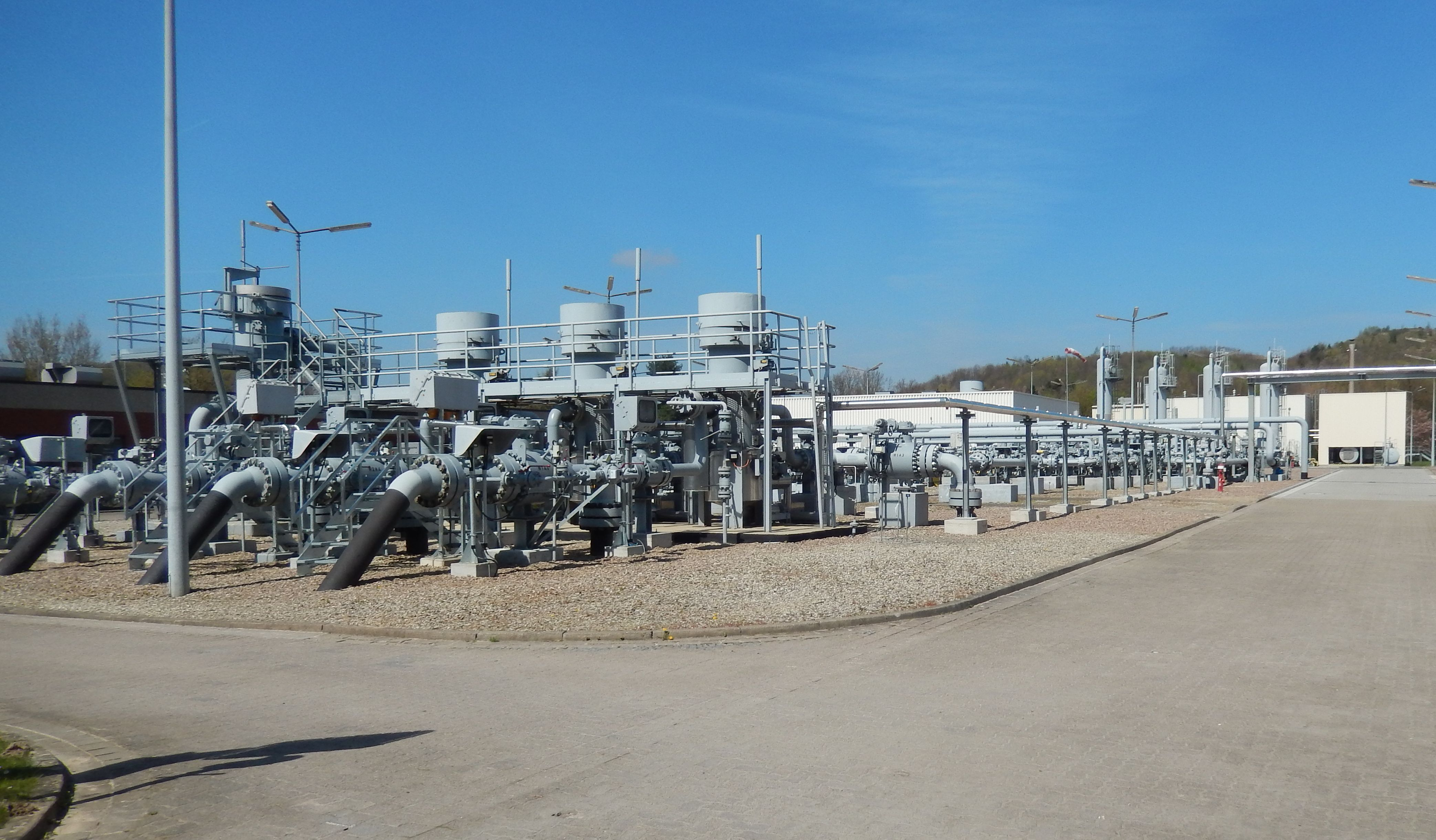 Underground natural gas storage facility in Empelde near Hannover, Germany.